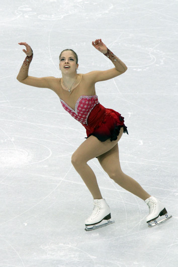 Carolina Kostner at the 2010 Winter Olympics.